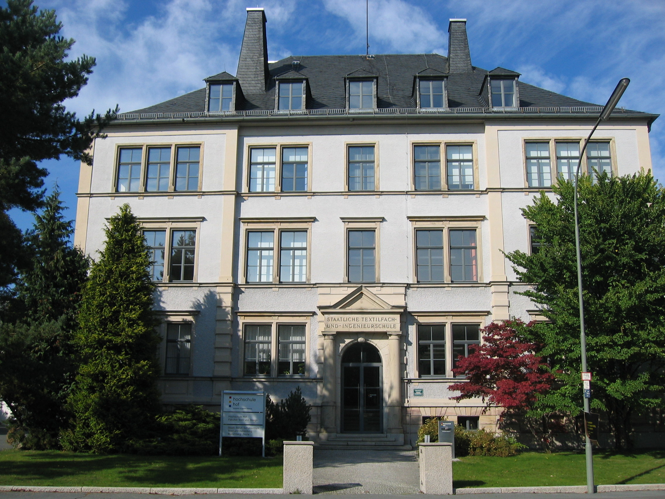 Textile department of the University for Appliend Sciences Hof